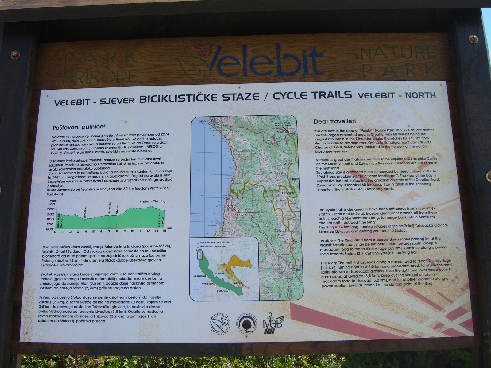 Photo by Nick Juhasz.